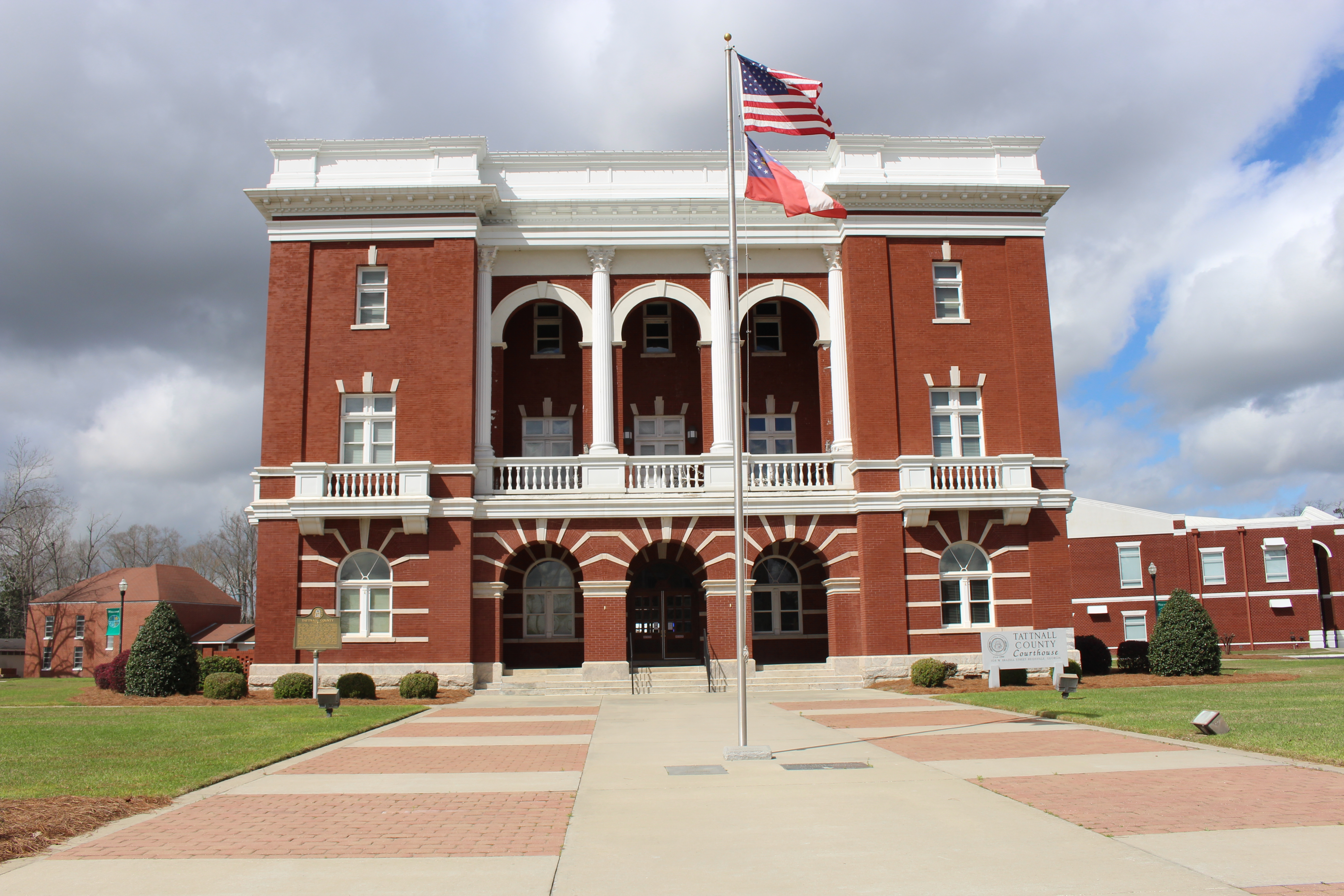 Reidsville, Tattnall County, Georgia